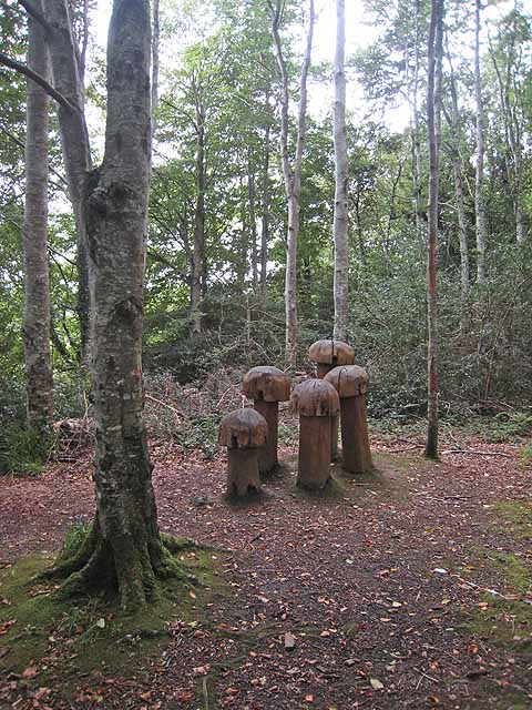 Toadstool sculpture at Hazelwood Demesne. The Hazelwood Demesne is a country park which occupies the grounds of a former stately home on the outskirts of Sligo. A nature trail runs through the Park, and so did a sculpture trail at one time, but few of the sculptures are still in place.